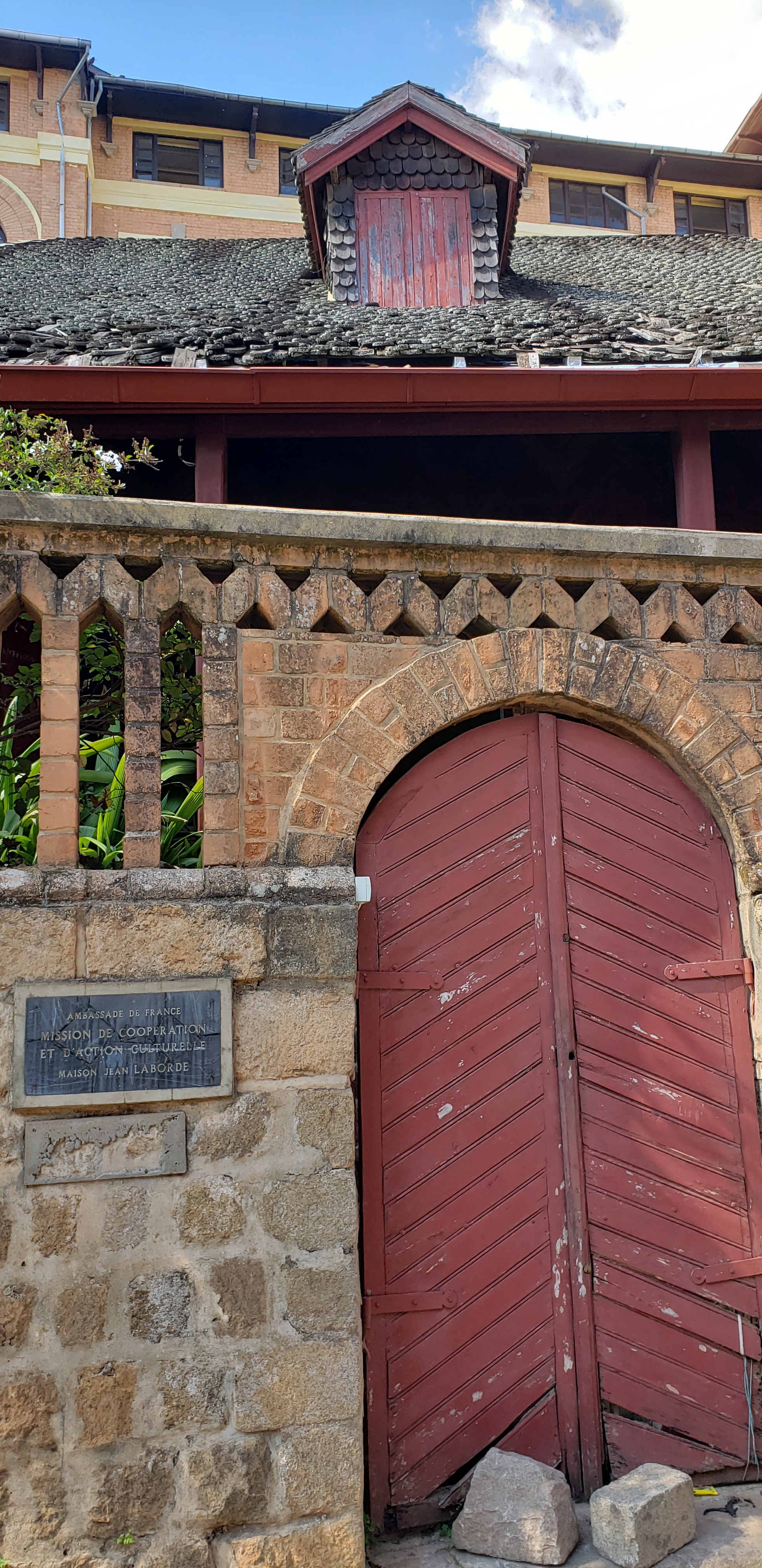 Maison de Jean Laborde